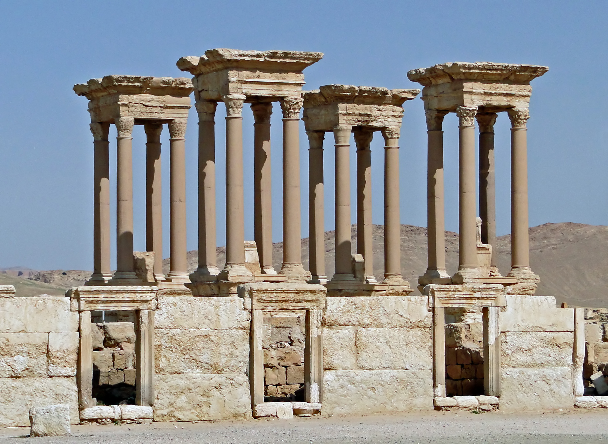 The Tetrapylon of Palmyra seen from the Agora, Syria